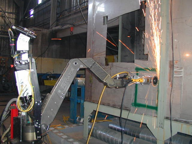 Robot disassembling mock-up to practice for work on contaminated nuclear research facility in what is now Quehanna Wild Area in Clearfield County, Pennsylvania in the United States. The former reactor facility in Quehanna Wild Area was so contaminated with radioactive material that parts of it had to be dismantled remotely by a robot. The area where the robot worked was so radioactive that no photos were taken of it there (only grainy videos), so this is the best image of how it operated.